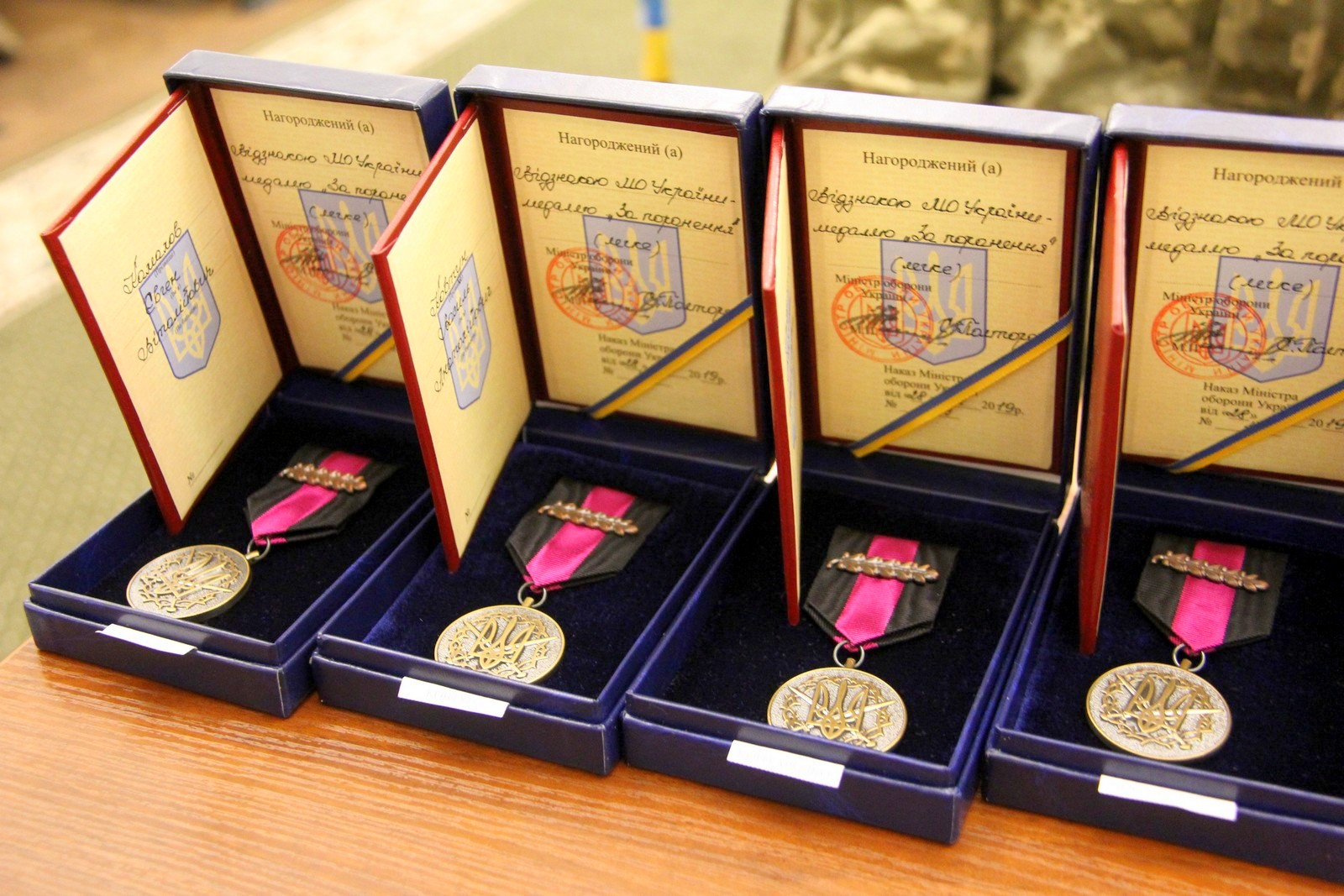 The first award ceremony with Wound Medal in Ukraine, Kyiv 2019